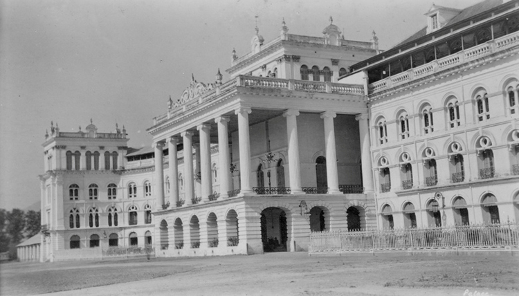 Old Narayanhiti Royal Palace built in 1886 as it looked in ca 1920, Kathmandu. It was demolished to build the present palace which was completed in 1970 and has now been converted into a museum.